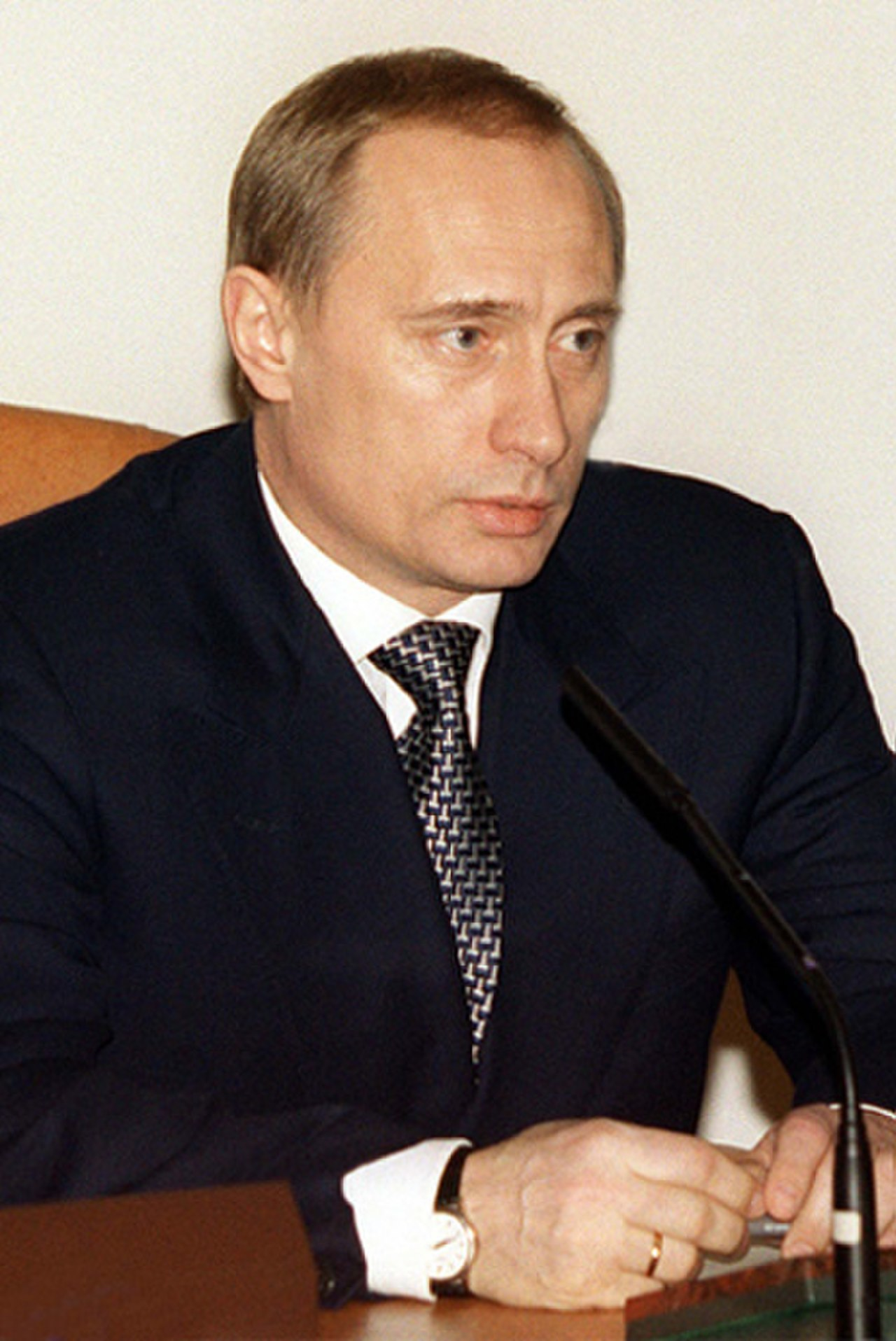 THE GOVERNMENT HOUSE, MOSCOW. The Russian government during an extraordinary meeting.